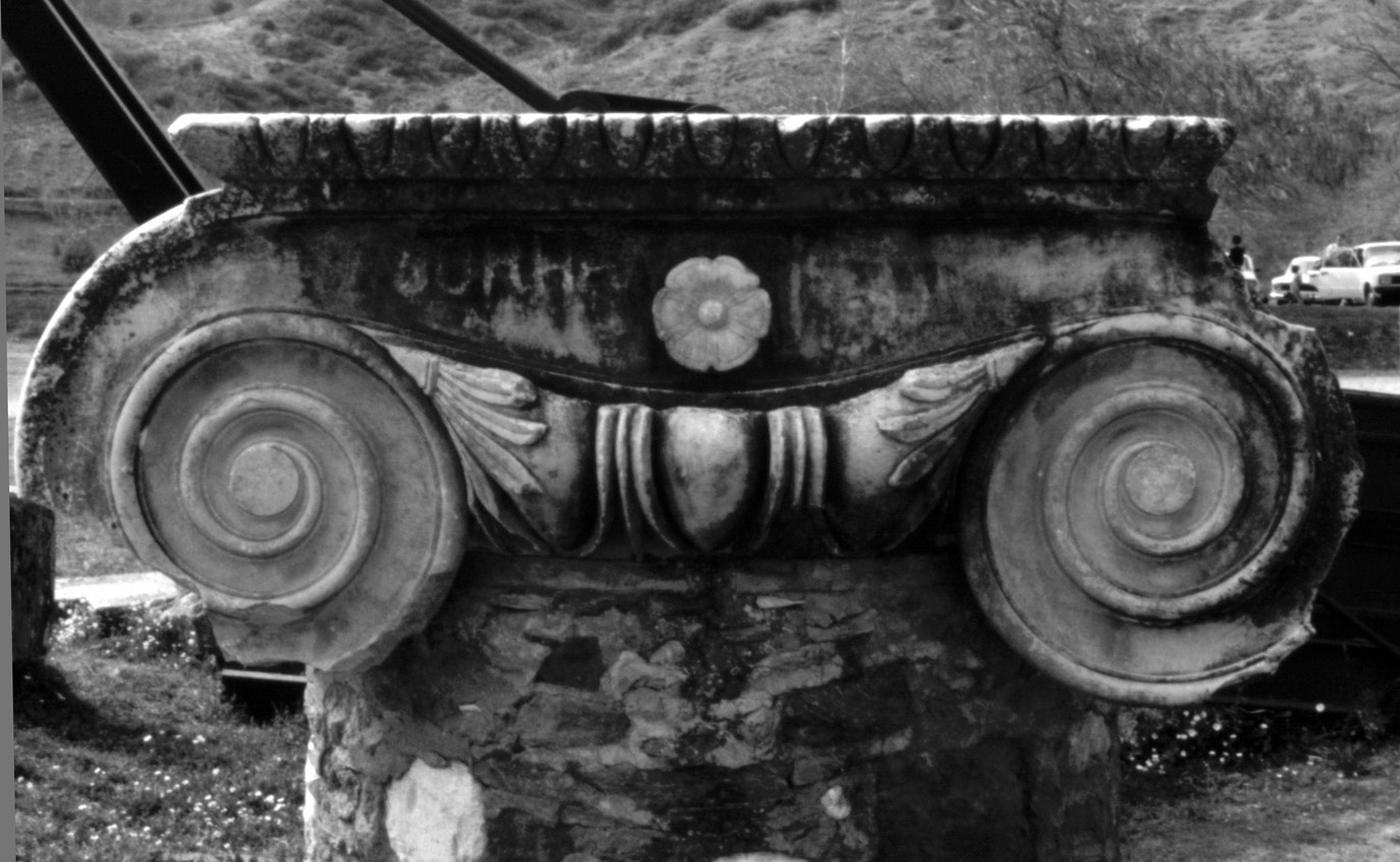 Turkey, Lidia, Sardis, temple of Artemis (Artemision), ionic capital of the first building (300 a.C.)